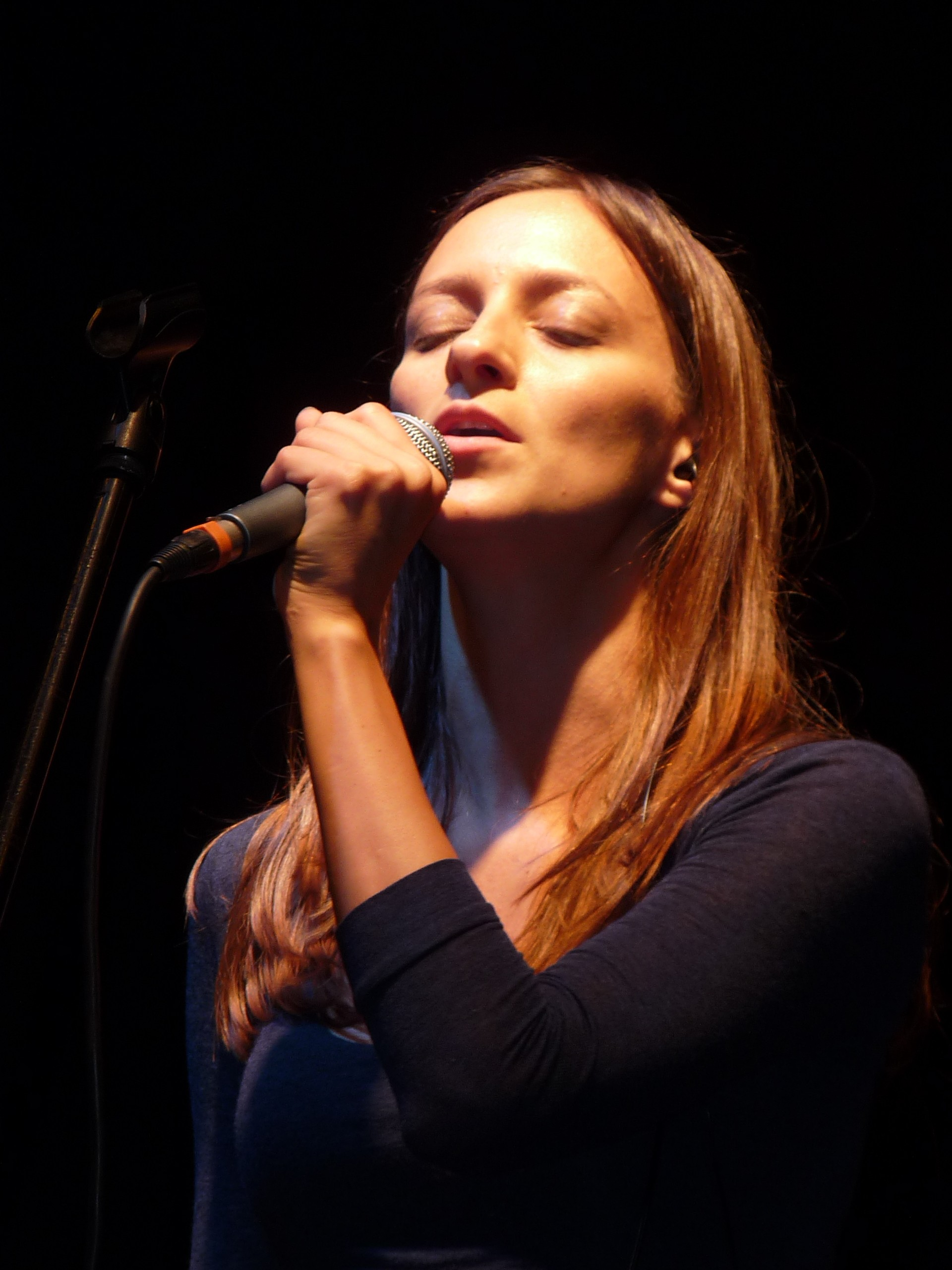 Ági Szalóki (1978– ) Hungarian singer, on the Day of Hungarian Song in 2010.